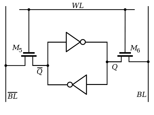 Six transistor SRAM memory cell with transistors M1 through M4 represented with logic gates as an inverter loop. See also SRAM Cell (6 Transistors)